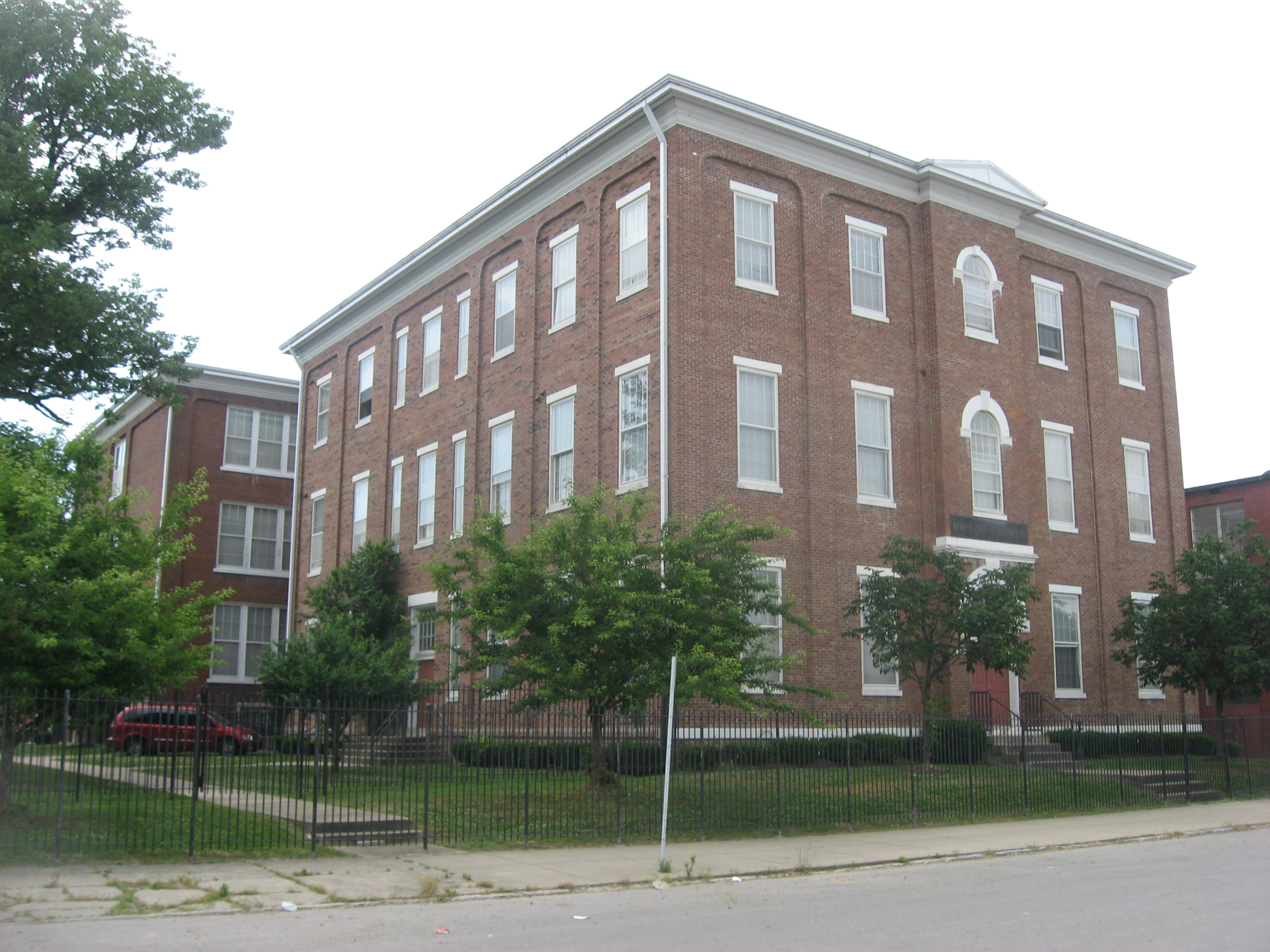 Front and southern side of the former Theodore Roosevelt Elementary School (now an apartment building), located at 222 N. Seventeenth Street in Louisville, Kentucky, United States. Built in 1865, it is listed on the National Register of Historic Places.